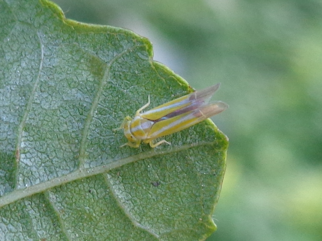 Alebra wahlbergi f. pallescens. Found in Riga town, Latvia